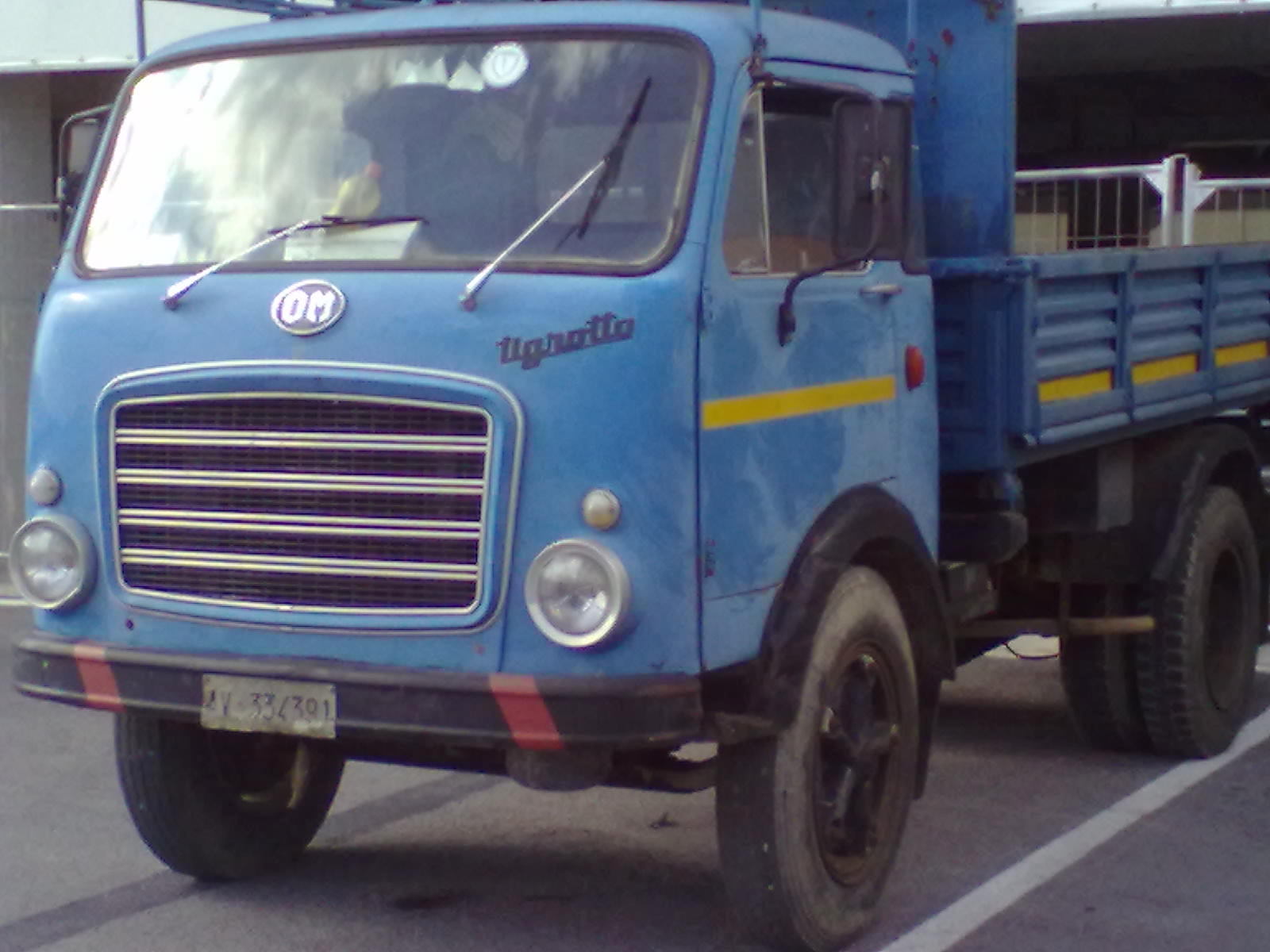 OM Tigrotto pick-up in Italy